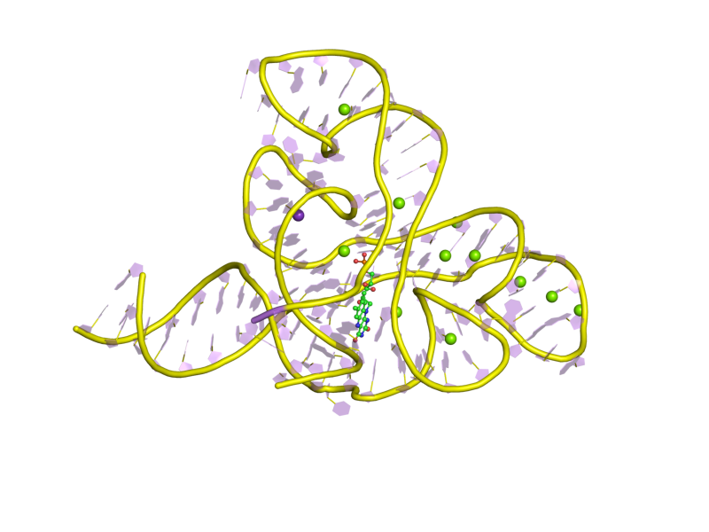 Cartoon representation of the molecular structure of protein registered with 3f4e code.